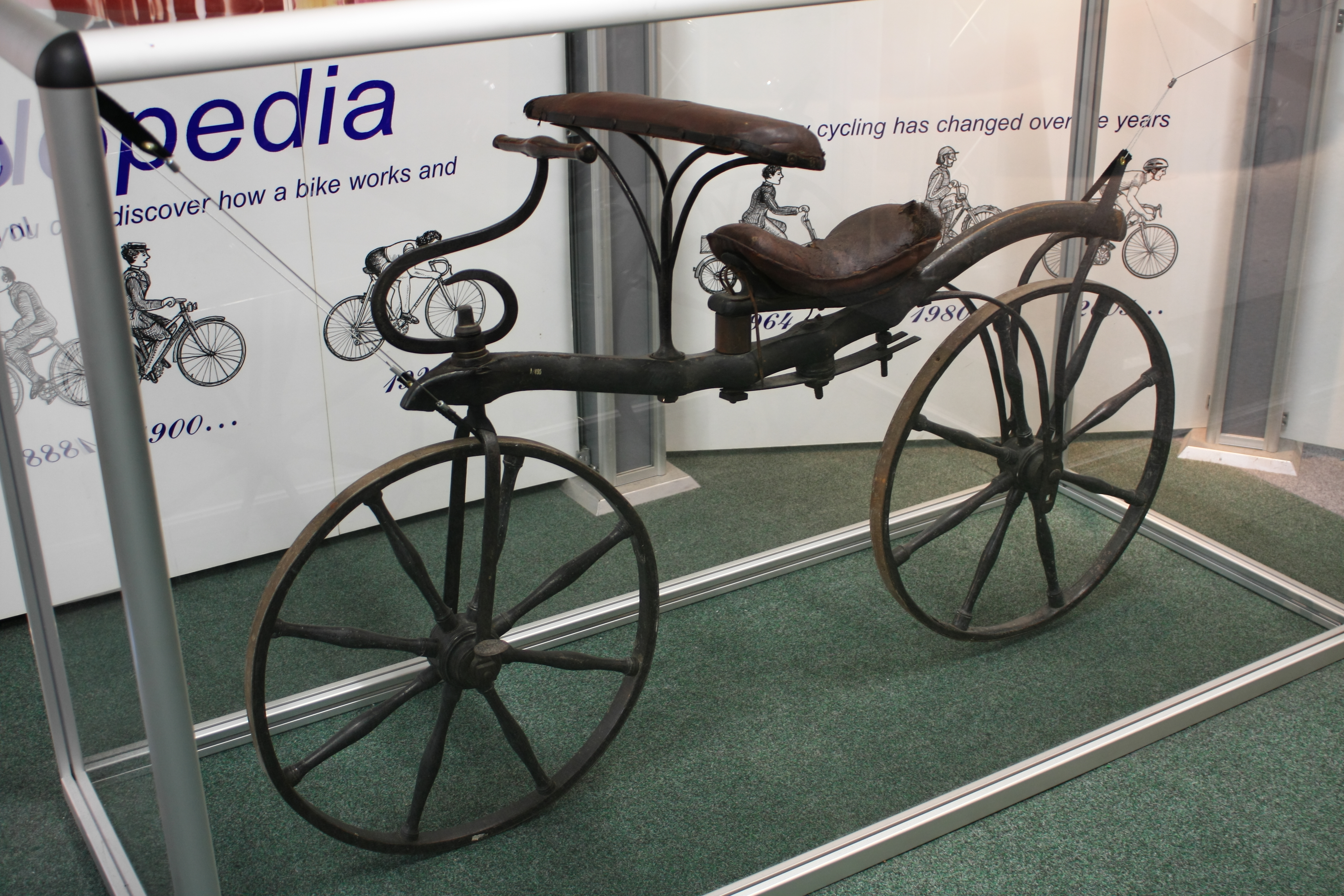 "The Hobby Horse (sometimes called the Dandy Horse) was introduced in Great Britain in 1818 and would have cost between £8 and £10 when first bought. It is made of wood and iron and is very heavy. When this machine was built there were no pedals or chains to use. Instead the rider had to move the vehicle forward with their legs while steering with their arms. The Hobby Horse could reach speeds of 8mph and had no brakes, so riding down hills could be very dangerous." Coventry Transport Museum, UK. 2009